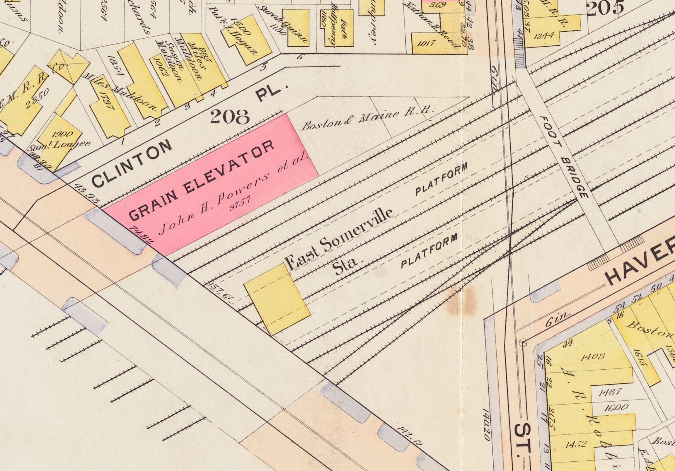 Detail of a 1901 map showing East Somerville station